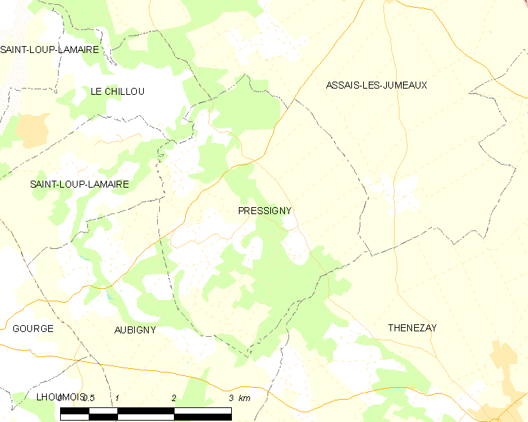 Map of French municipality Pressigny